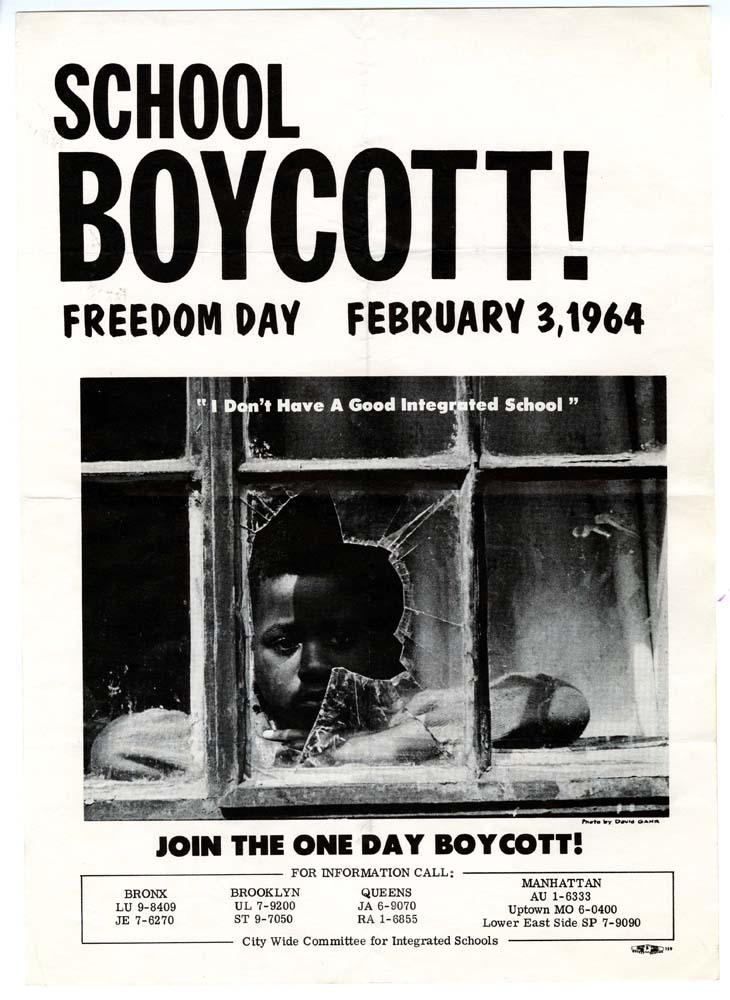 This flier calls for a one day school boycott in New York City on February 3rd, 1964. The boycott was part of a campaign for quality, integrated education in the New York City public school system.